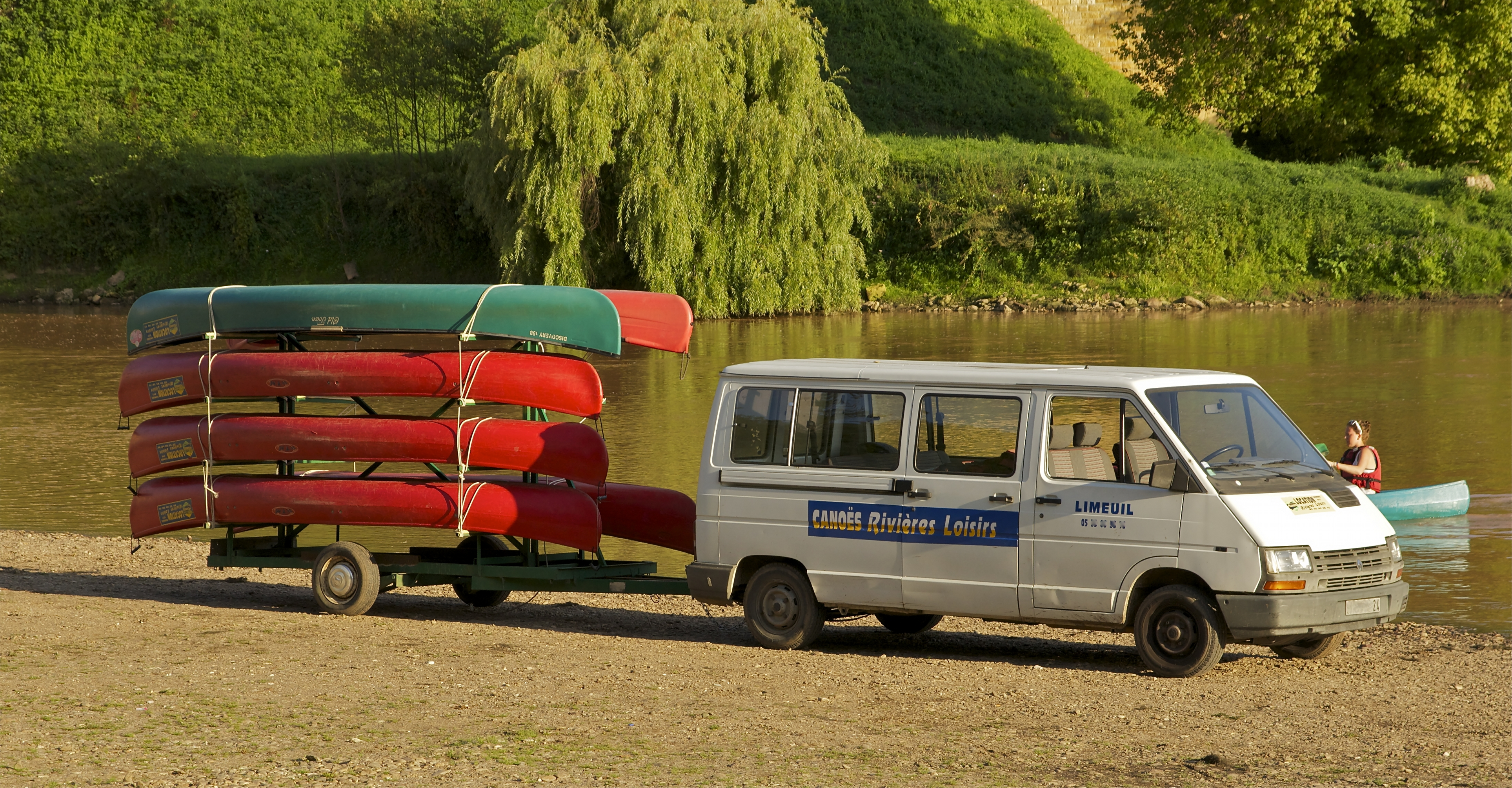 canoe livery or canoe rental, in Limeuil, Dordogne, France. Boats with tourists down the river, and return to the starting point with this kind of vehicles.